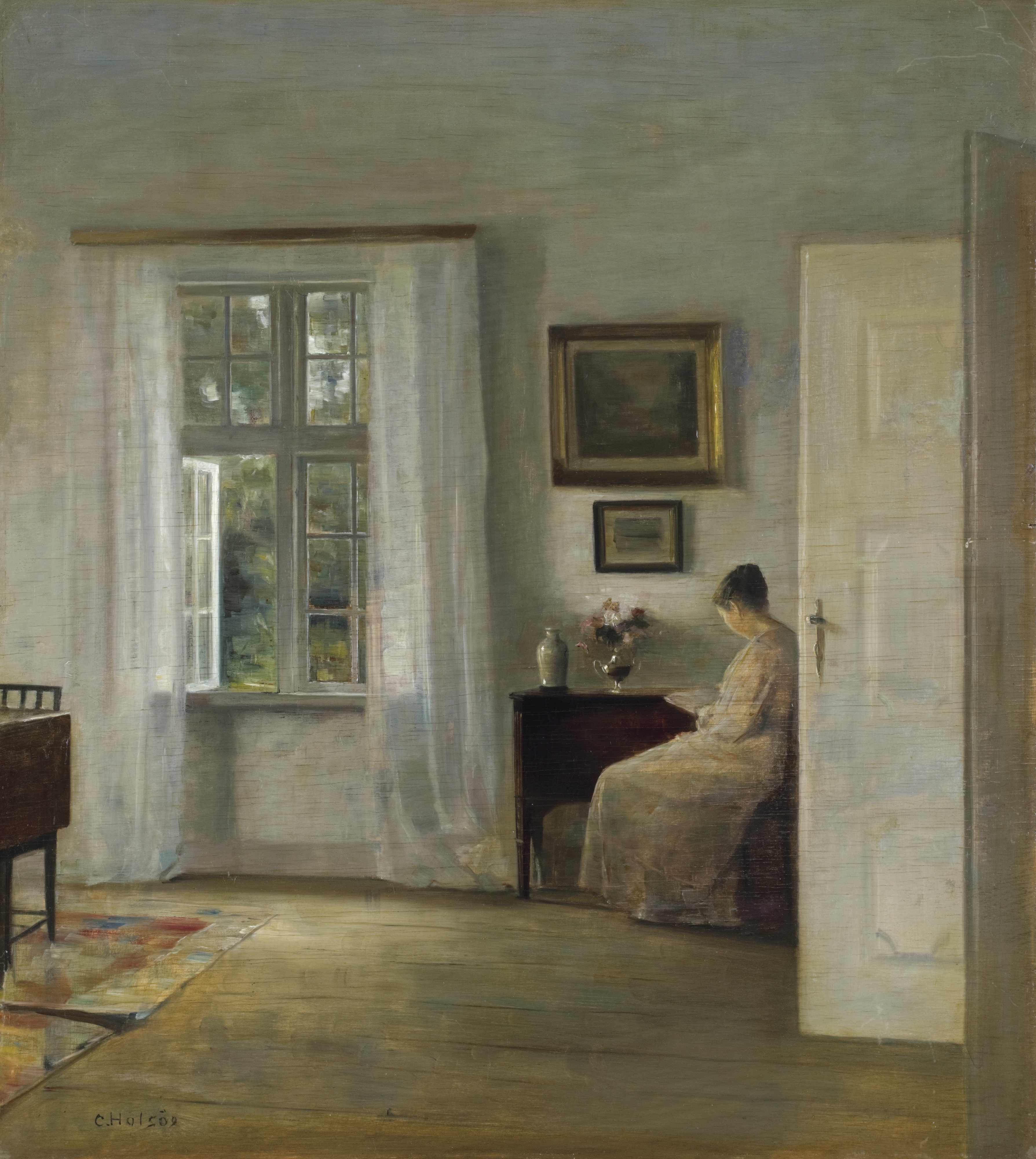 Laesende Kvinde, Oil On Panel (70.5 x 62.5 cm). Private collection